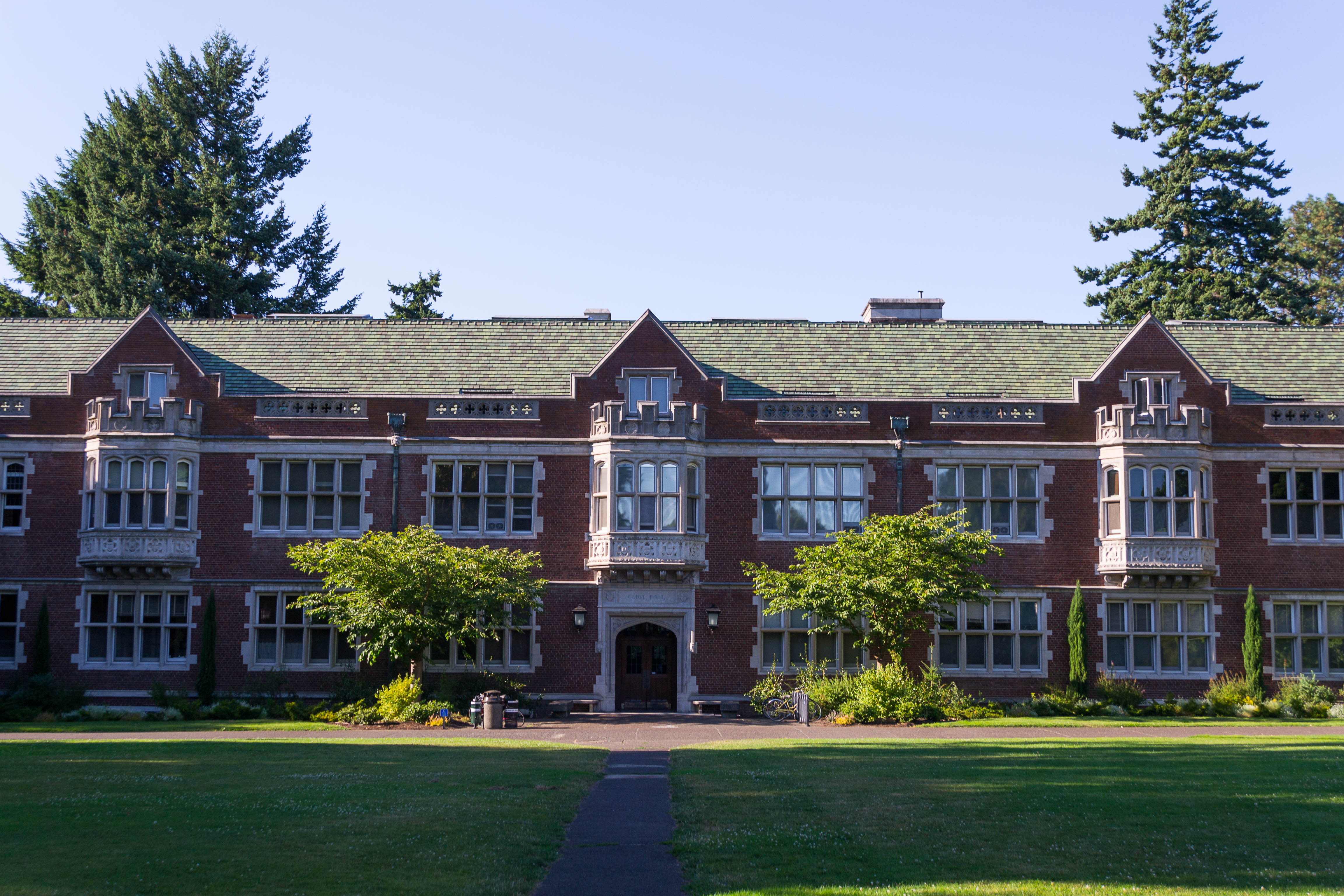 Eliot Hall at Reed College was named for Thomas Lamb Eliot, an early supporter of the college